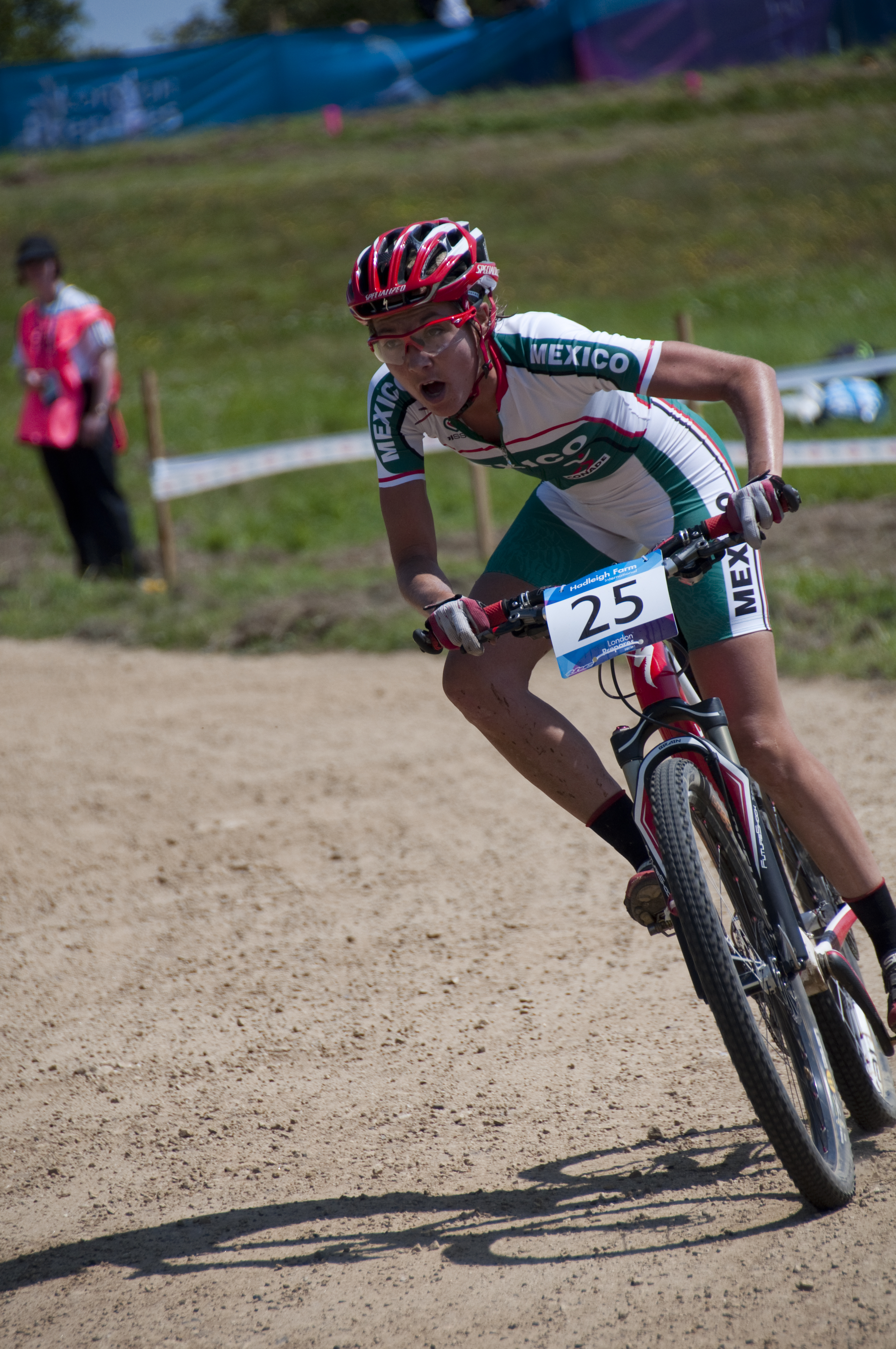 On the 2012 course